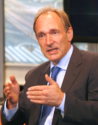 Tim Berners-Lee talking at the World Wide Web Foundation press conference at the Newseum.